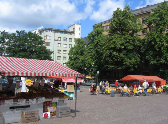 Töölö market place in Helsinki, Finland